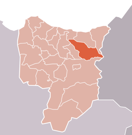 Ait mait